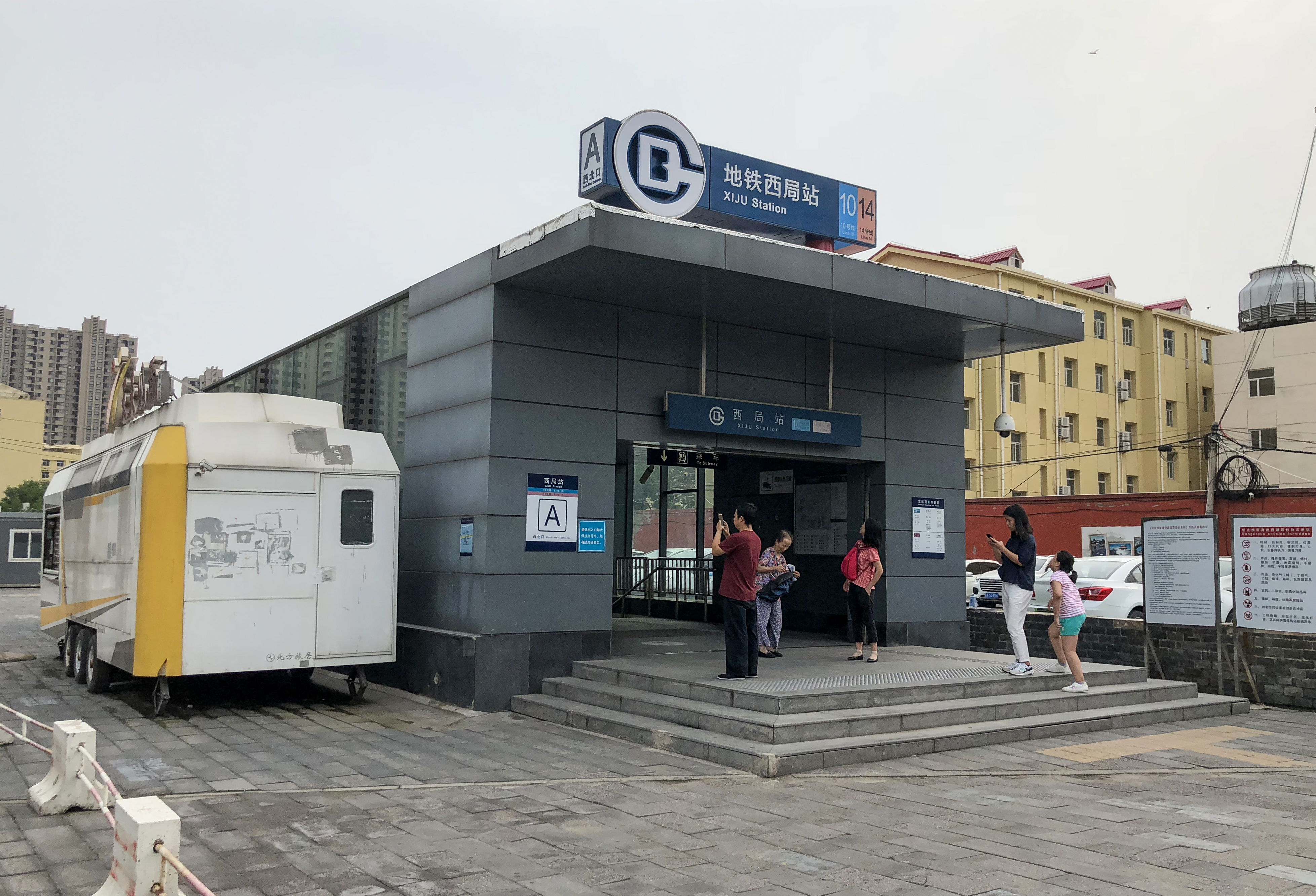 For bus interchange to Lize.